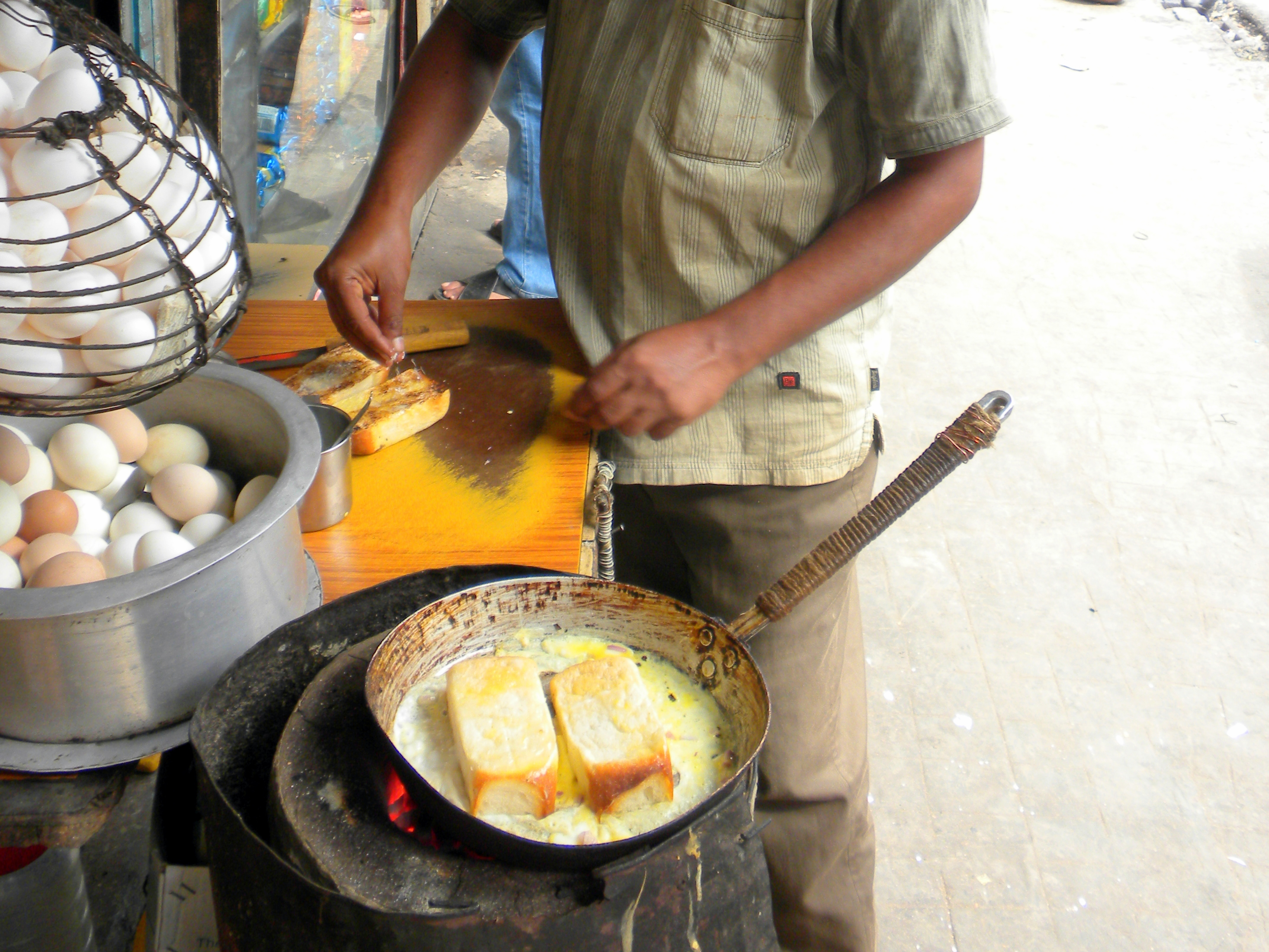 Street Food - something like French toast, Calcutta